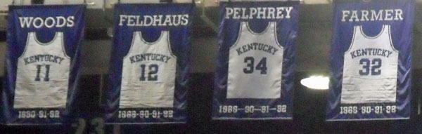 Jerseys honoring the seniors on the 1991–92 Kentucky Wildcats men's basketball team, known as The Unforgettables, hang in Rupp Arena